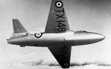 E1/44, third prototype on test flight